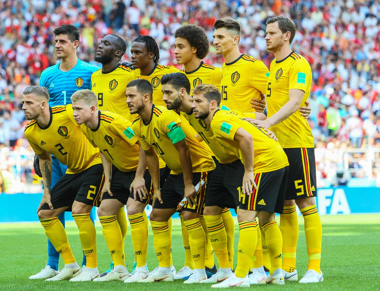 Belgium national association football team